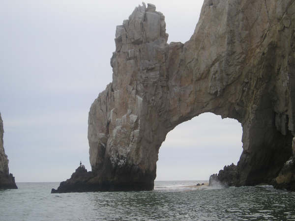 the famous arch